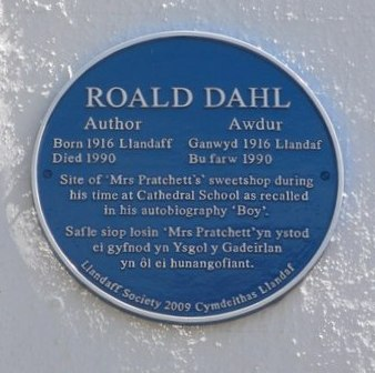 Blue plaque for Roald Dahl, Llandaff, Cardiff, Wales